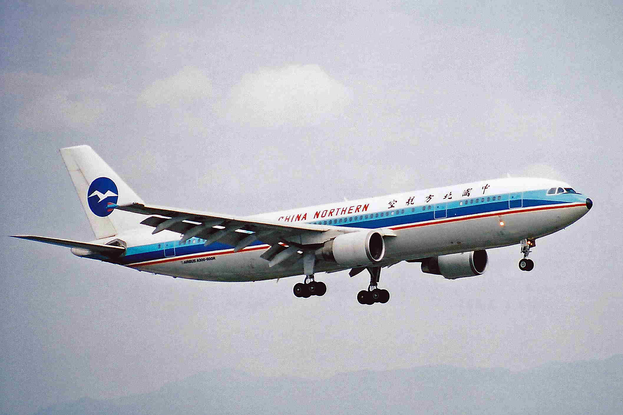 Airbus A300 B4-622R, registration B-2329, of China Northern Airlines at Kansai International Airport.